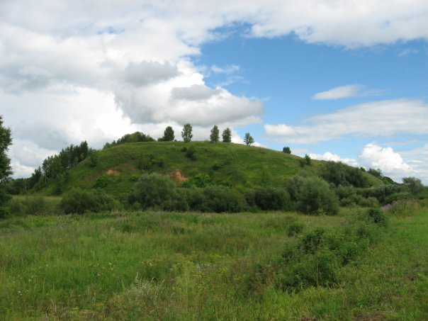 Photo of the Soldyr fort (Idnakar) IX-XIII AD, near the Glazov (Udmurtia)